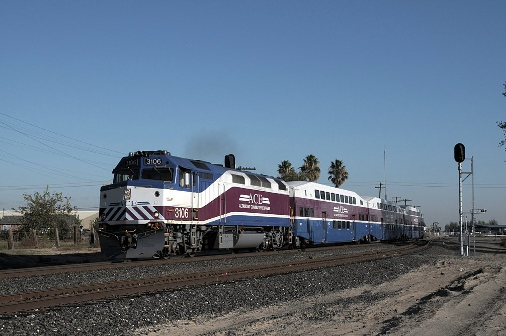 ACE #7 at Wyche (Manteca)